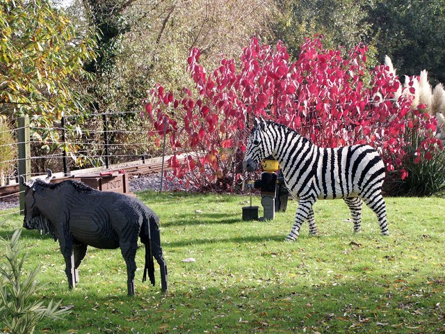 Lego creatures Over 12 million pieces of Lego were used when Legoland was created.